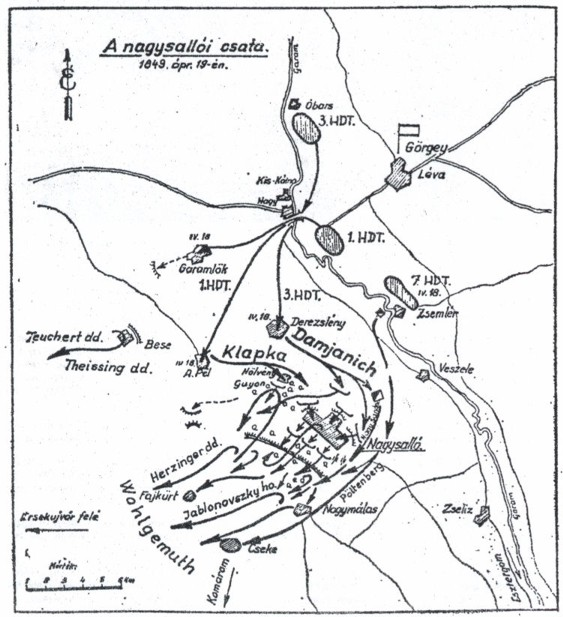 The military actions in the Battle of Nagysalló 19.10.1849